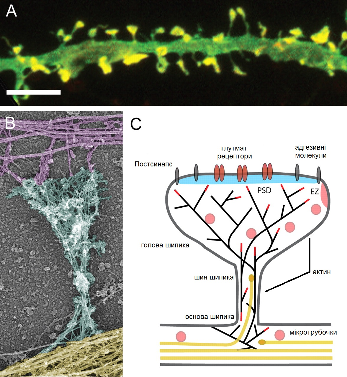 Cytoskeletal organization of dendritic spines. (A) Dendritic spine morphology (green) and localization of F-actin (red) in cultured hippocampal neurons. Merged red and green are shown in yellow. Bar, 5 µm. (B) Actin and microtubule cytoskeleton organization in a mature dendritic spine from cultured hippocampal neurons visualized by platinum replica electron microscopy (EM). Axonal cytoskeleton, purple; dendritic shaft, yellow; dendritic spine, cyan. The spine head typically contains a dense network of short cross-linked branched actin filaments, whereas the spine neck contains loosely arranged longitudinal actin filaments, both branched and linear. The base of the spine also contains branched filaments, which frequently reside directly on the microtubule network in the dendritic shaft. (C) Schematic diagram of a mature mushroom-shaped spine showing the postsynaptic membrane containing the postsynaptic density (PSD; blue), adhesion molecules (gray) and glutamate receptors (reddish brown), the actin (black lines) and microtubule (yellow) cytoskeleton, and organelles. The endocytic zone (EZ) is located lateral of the PSD in extrasynaptic regions of the spine and recycling endosomes (pink) are found in the shaft and spines. Dendritic spines exhibit a continuous network of both straight and branched actin filaments (black lines). The actin network is spread in the spine base, gets constricted in the neck, undergoes extensive branching at the neck–head junction, and stays highly branched in the spine head. The actin-polymerizing barbed ends are indicated as red lines. Stable microtubule arrays are predominantly present in the dendritic shaft. A small fraction of the microtubules in mature dendrites are dynamic and depart from the dendritic shaft, curve, and transiently enter dendritic spines. The microtubule plus-ends are symbolized as yellow ovals.